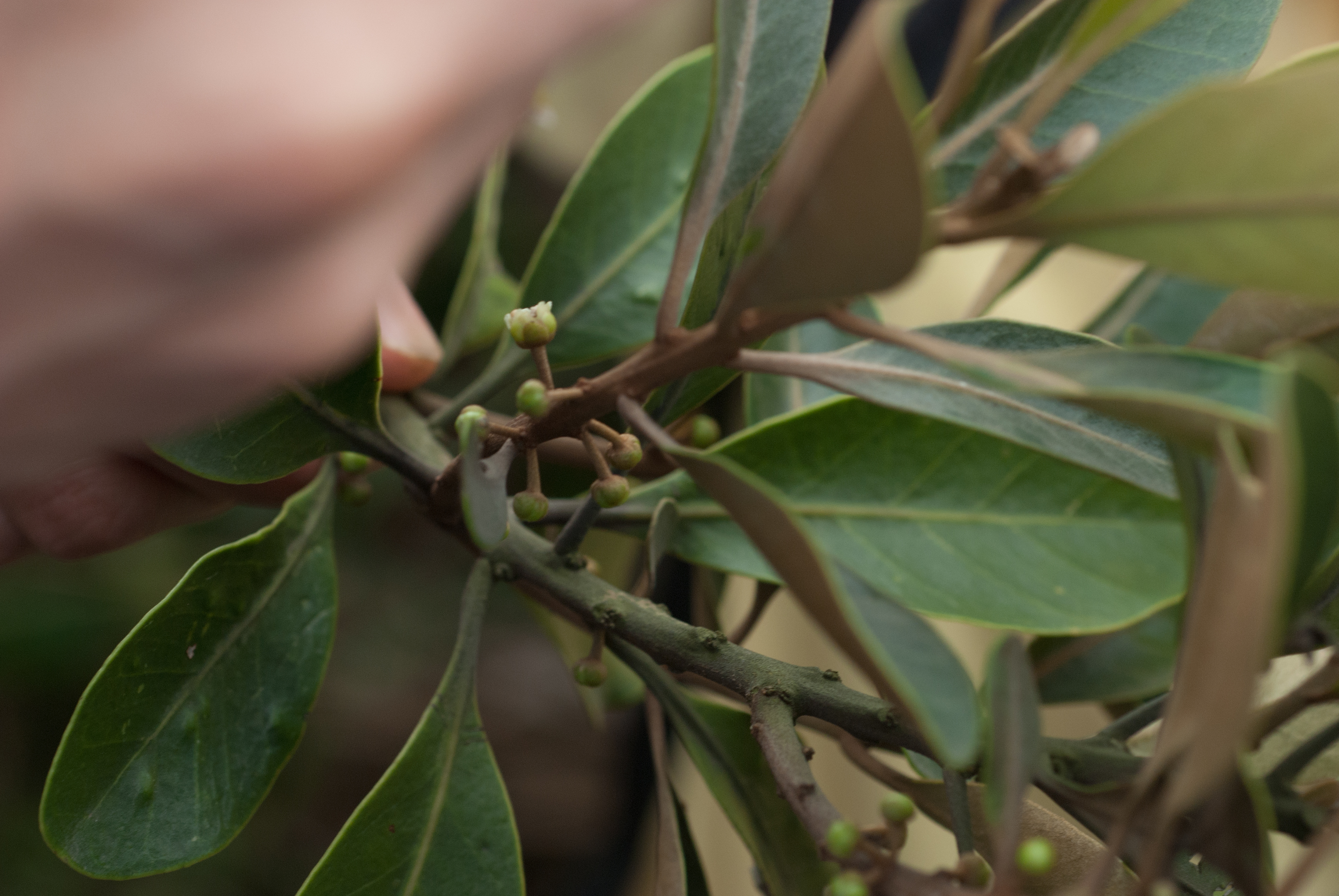 Planchonella obovata.